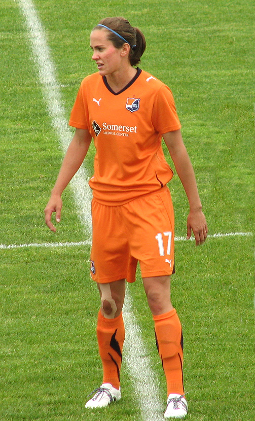 Keeley Dowling of the New Jersey Sky Blue FC.